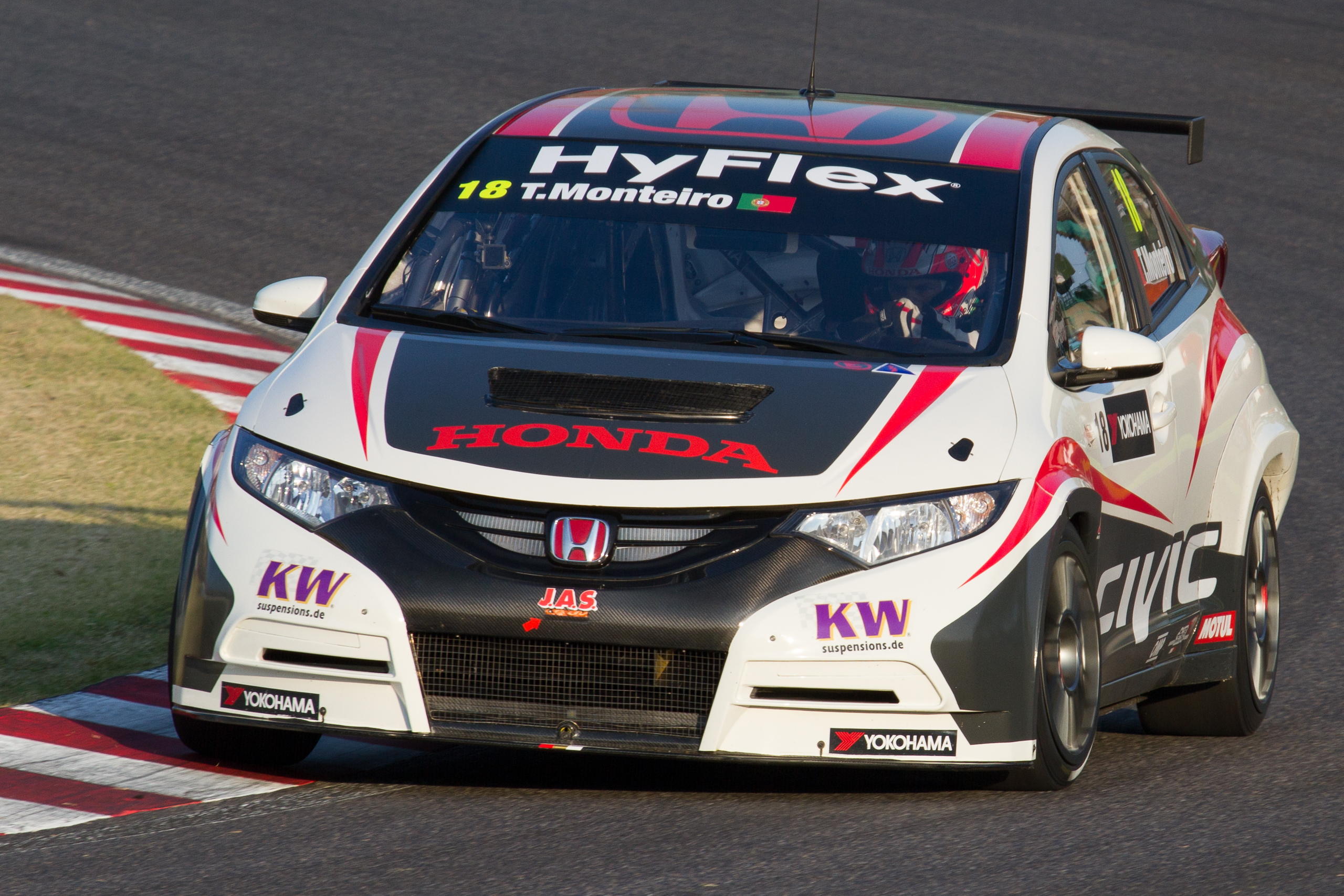 World Touring Car Championship 2012 Race of Japan: Tiago Monteiro (Honda Racing Team JAS) driving the Honda Civic WTCC